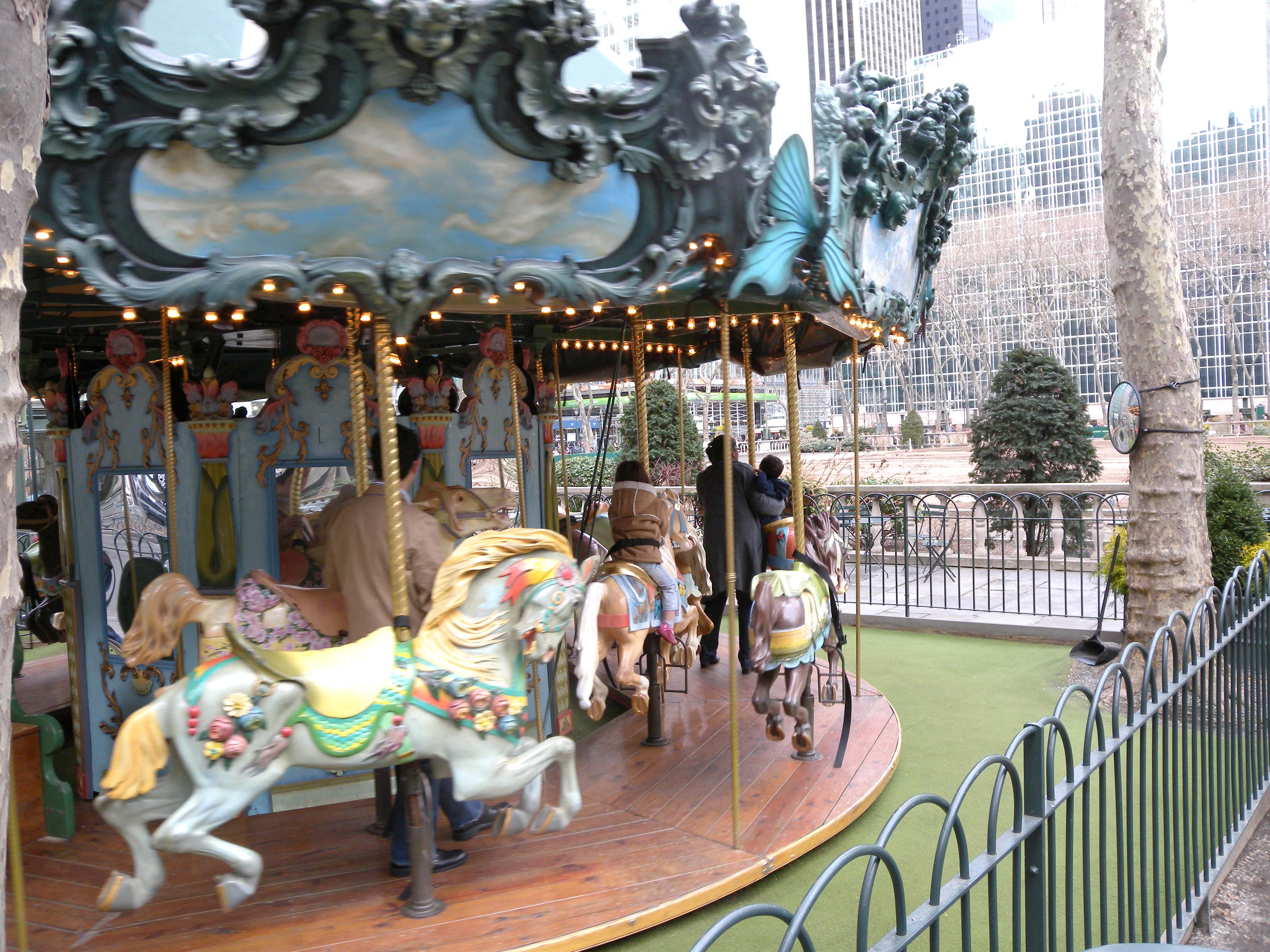 Looking north at east end of Bryant Park carousel.